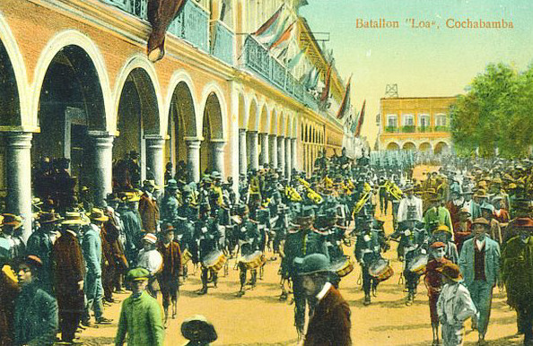 Bolivia Banda del Batallon Loa Cochabamba, 1905